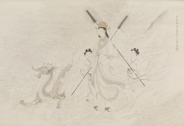 Title alludes to poem Li Sao "Encountering Sorrow" by Qu Yuan. The woman may be Fu Fei 虙妃（宓妃）aka Luoshen 洛神, i.e., a goddess of Luo River (theory by Fujikake Shizuya); or the sibyl (巫咸) who foretold Qu Yuan may meet a virtuous lord to serve under (Hosono Masanobu). Others suggest identifying with the Princess of the Xiang (Xiang Jun) and the Lady of the Xiang (Xiang Furen) from a poem different from the title of the scrolls. [1]